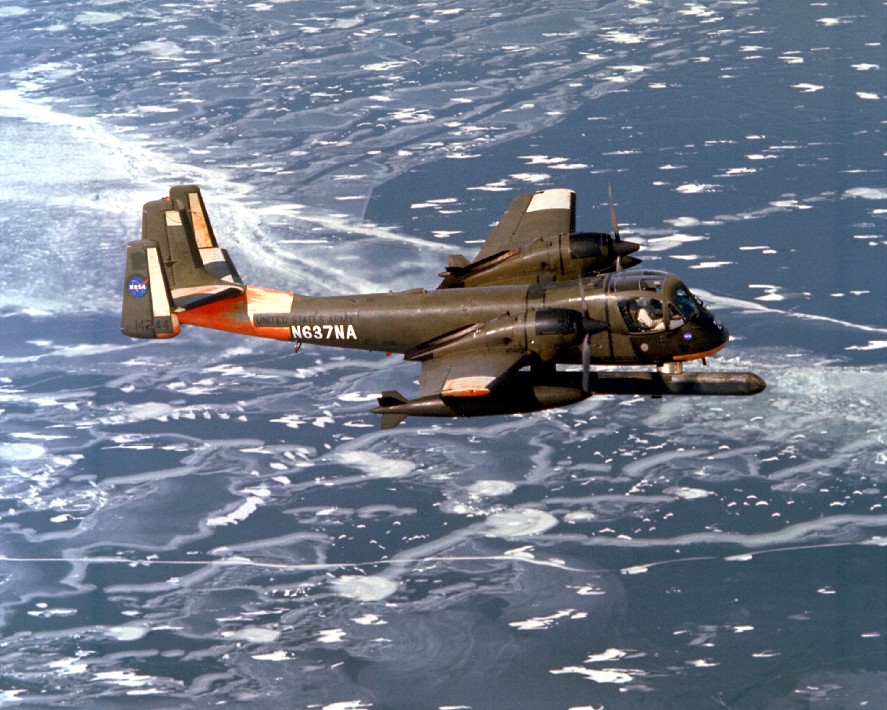 A Grumman OV-1B Mohawk (s/n 64-14244) used by the NASA Glenn Research Center for an icing test program, photographed on 1 March 1973. It flew for the NASA with the civil registration N637NA, and was later converted to an RV-1D. It was finally scrapped in March 1992.